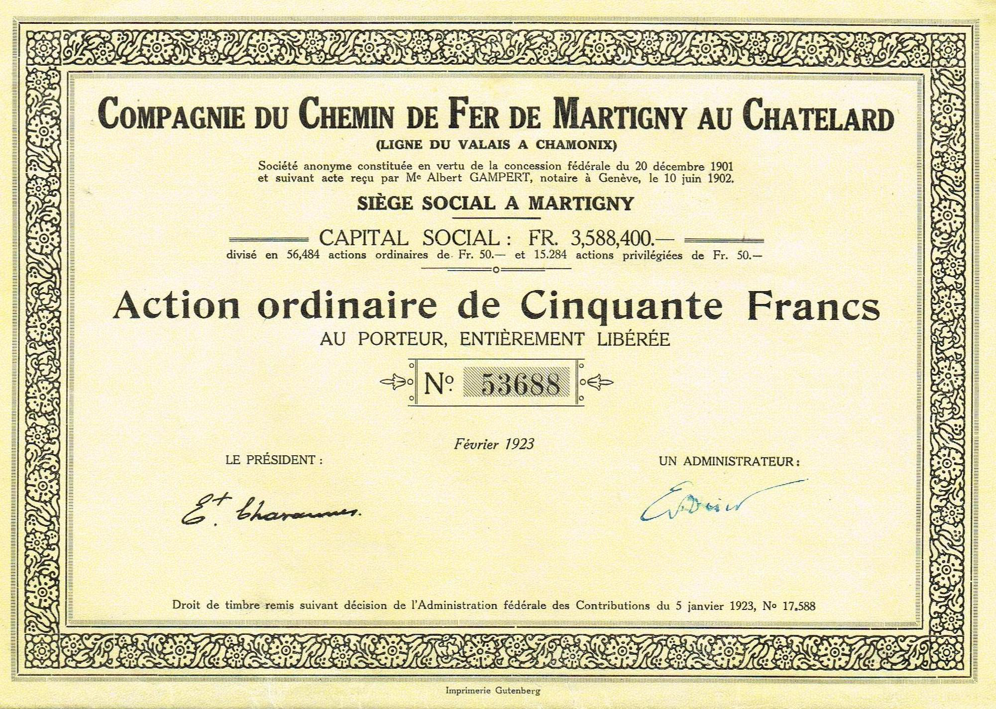 Share of the Cdf de Martigny au Chatelard, issued February 1923